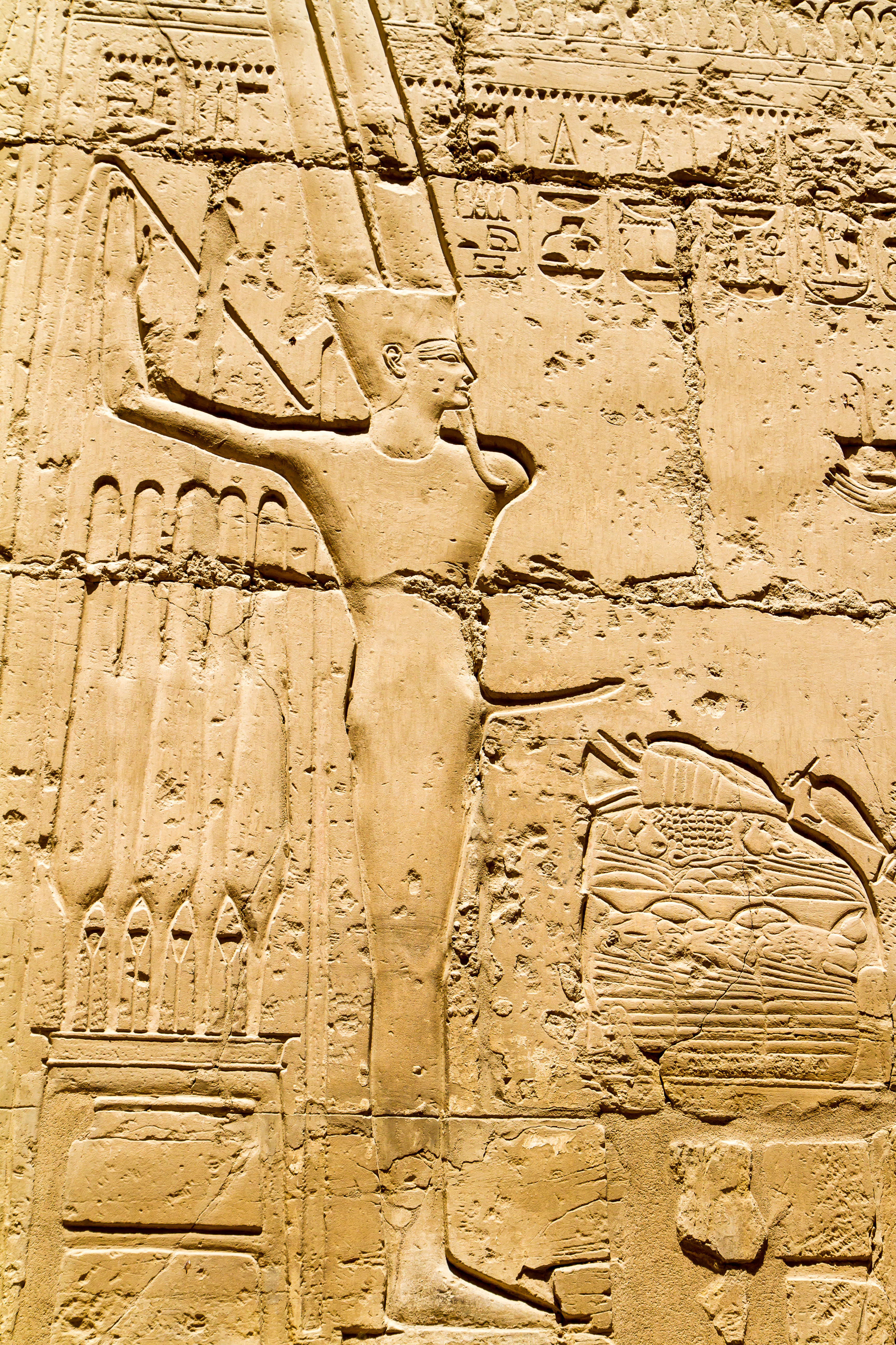 Luxor, Luxor City, Luxor, Luxor Governorate, Egypt